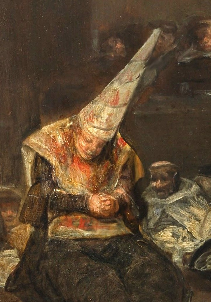 Detail of The Inquisition Tribunal by Goya